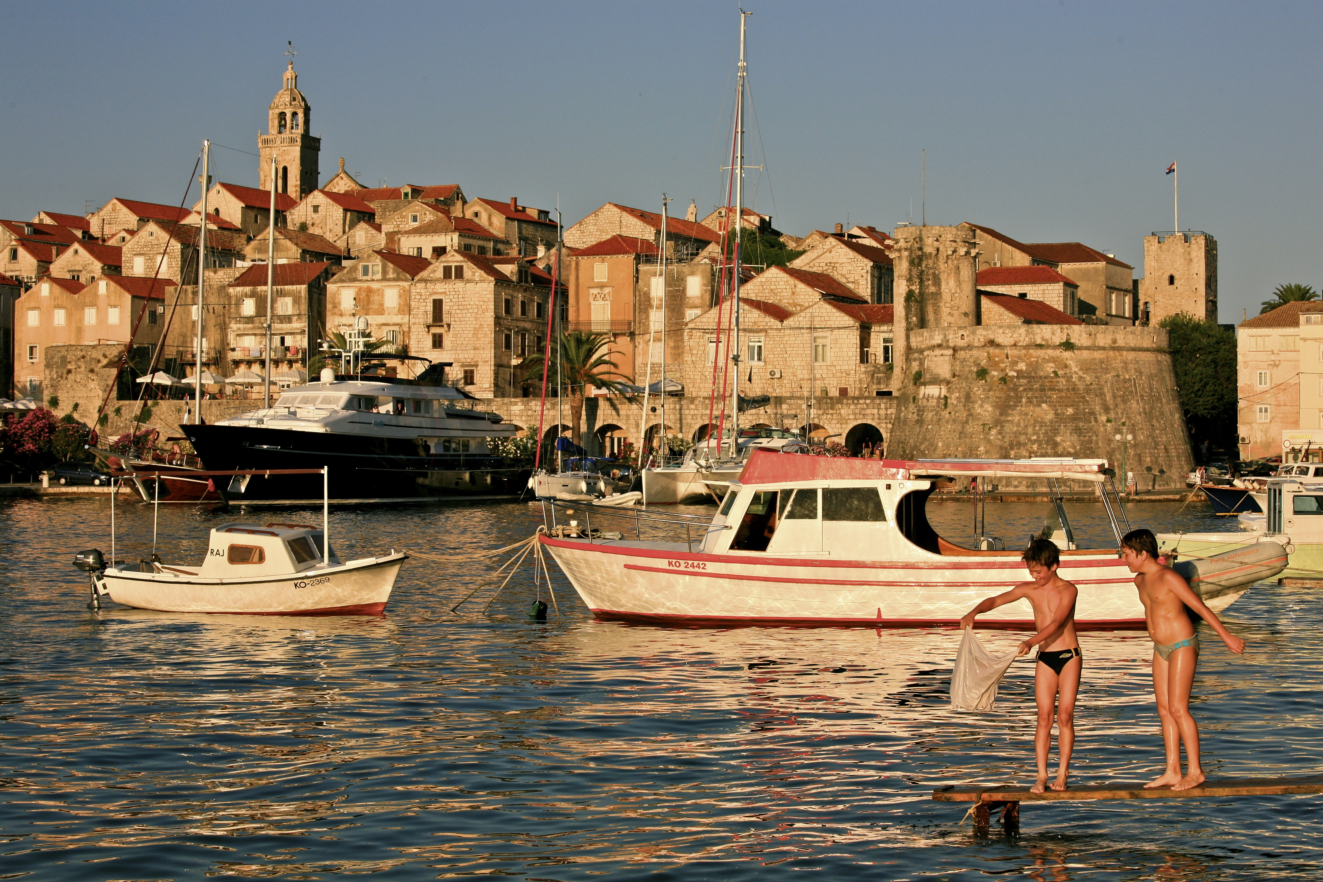 Kids and Korcula Town